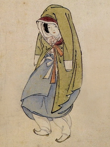 "Biguni (a Buddhist nun) greeting a kisaeng" (transliteration:Iseung yeonggi) from Hyewon pungsokdo by 19th-century Korean painter, Hyewon. Original stored at Gansong Art Museum in Seoul, South Korea.